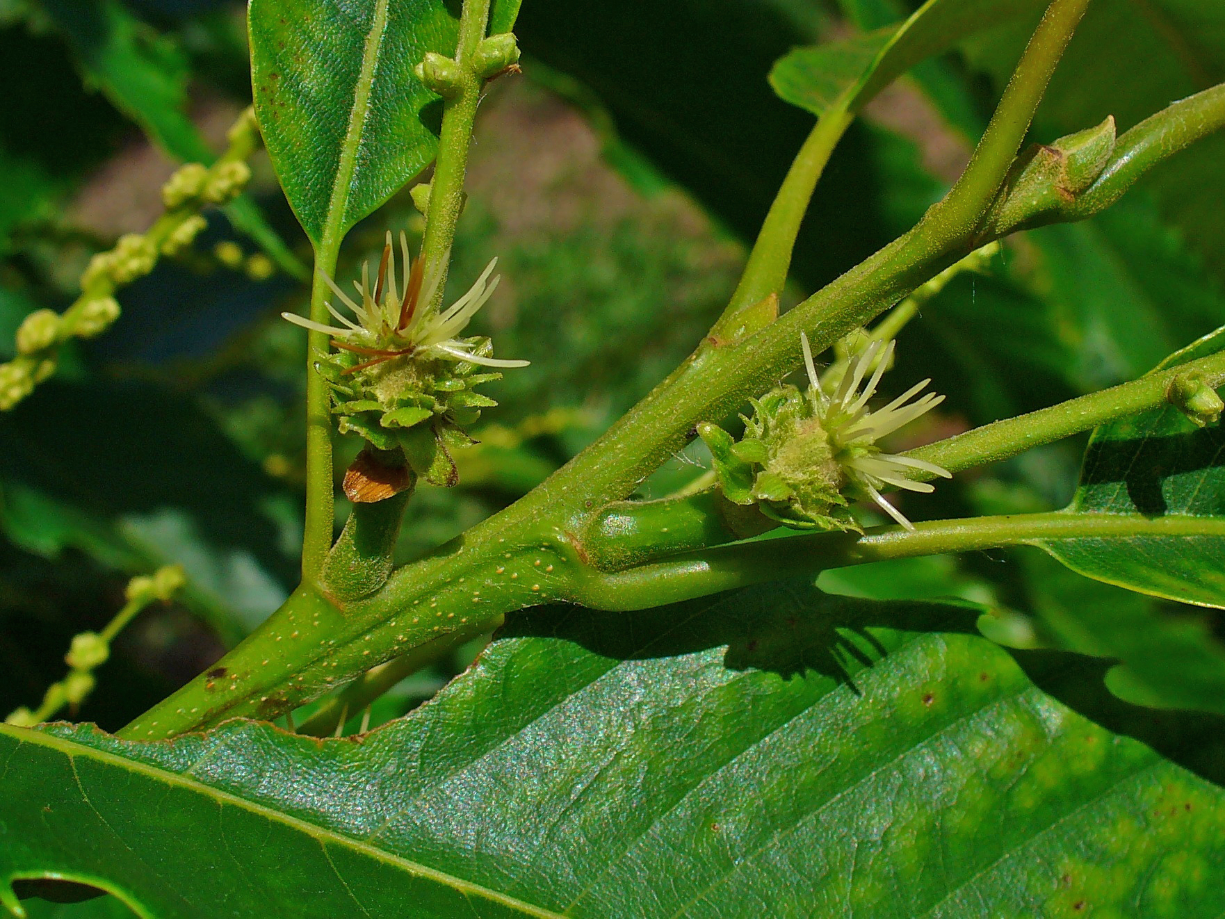 Castanea sativa, Fagaceae, Sweet Chestnut, female flowers. Karlsruhe, Germany.